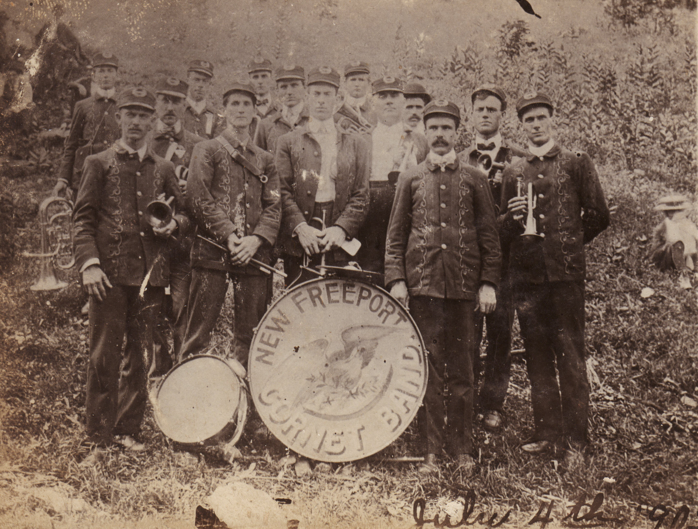 The New Freeport Cornet Band in New Freeport, Freeport Township, Greene County, Pennsylvania